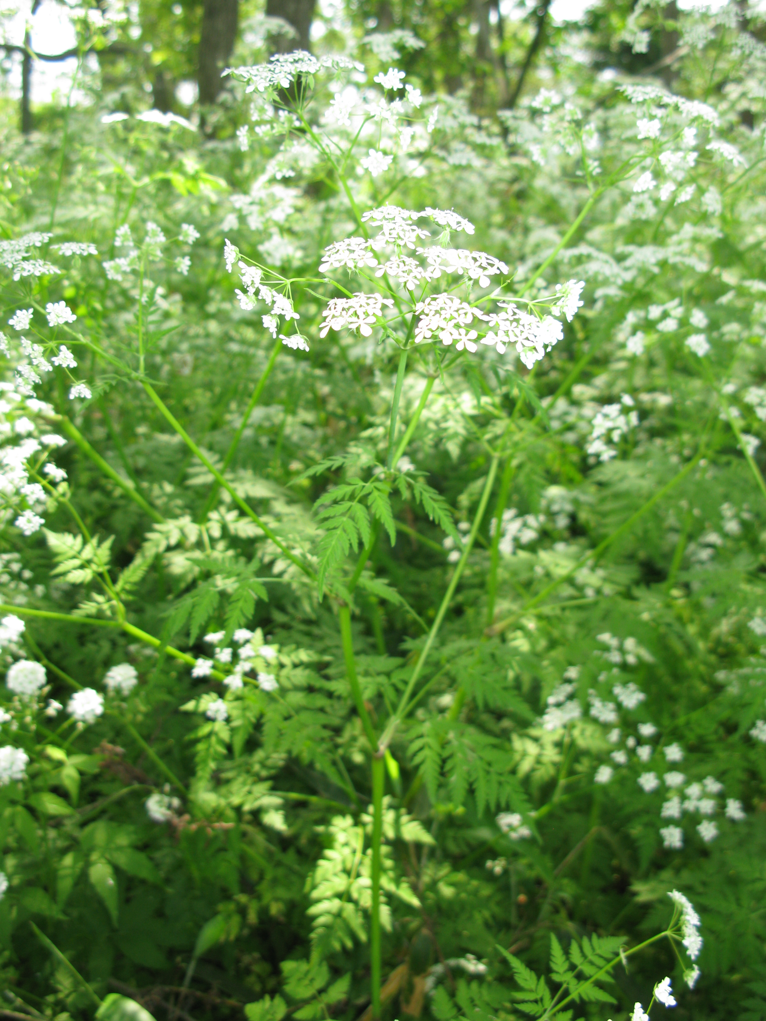 Anthriscus sylvestris, Aizu area, Fukushima pref., Japan